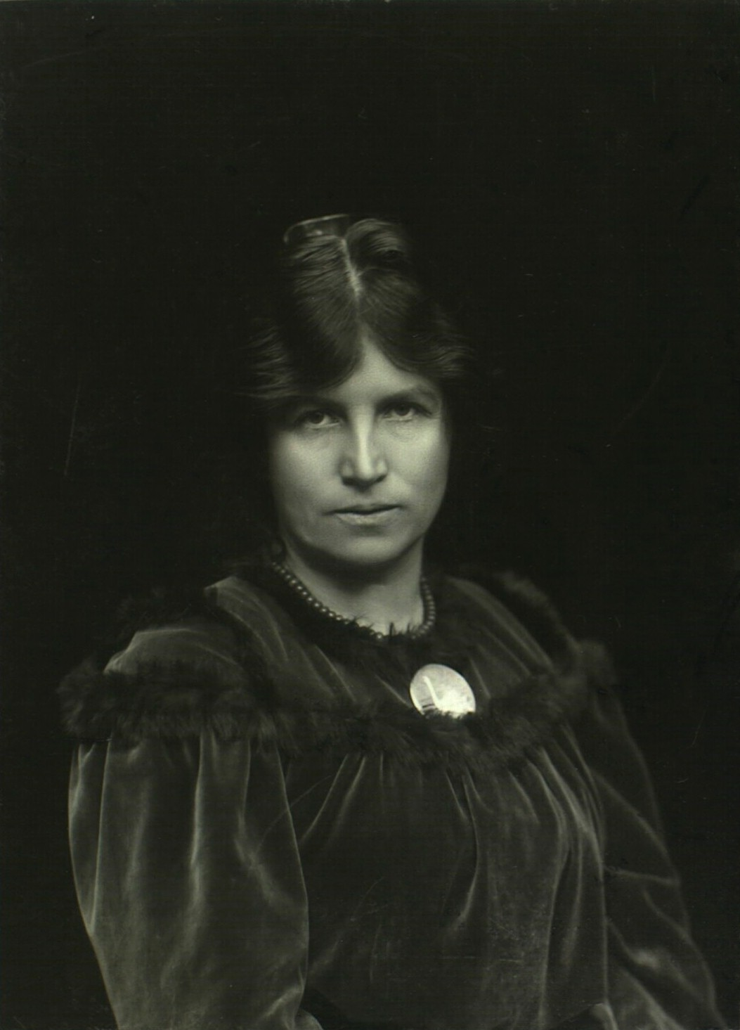 Agnes Slott-Møller, née Rambusch (1862-1937), Danish painter, wife of Harald Slott-Møller